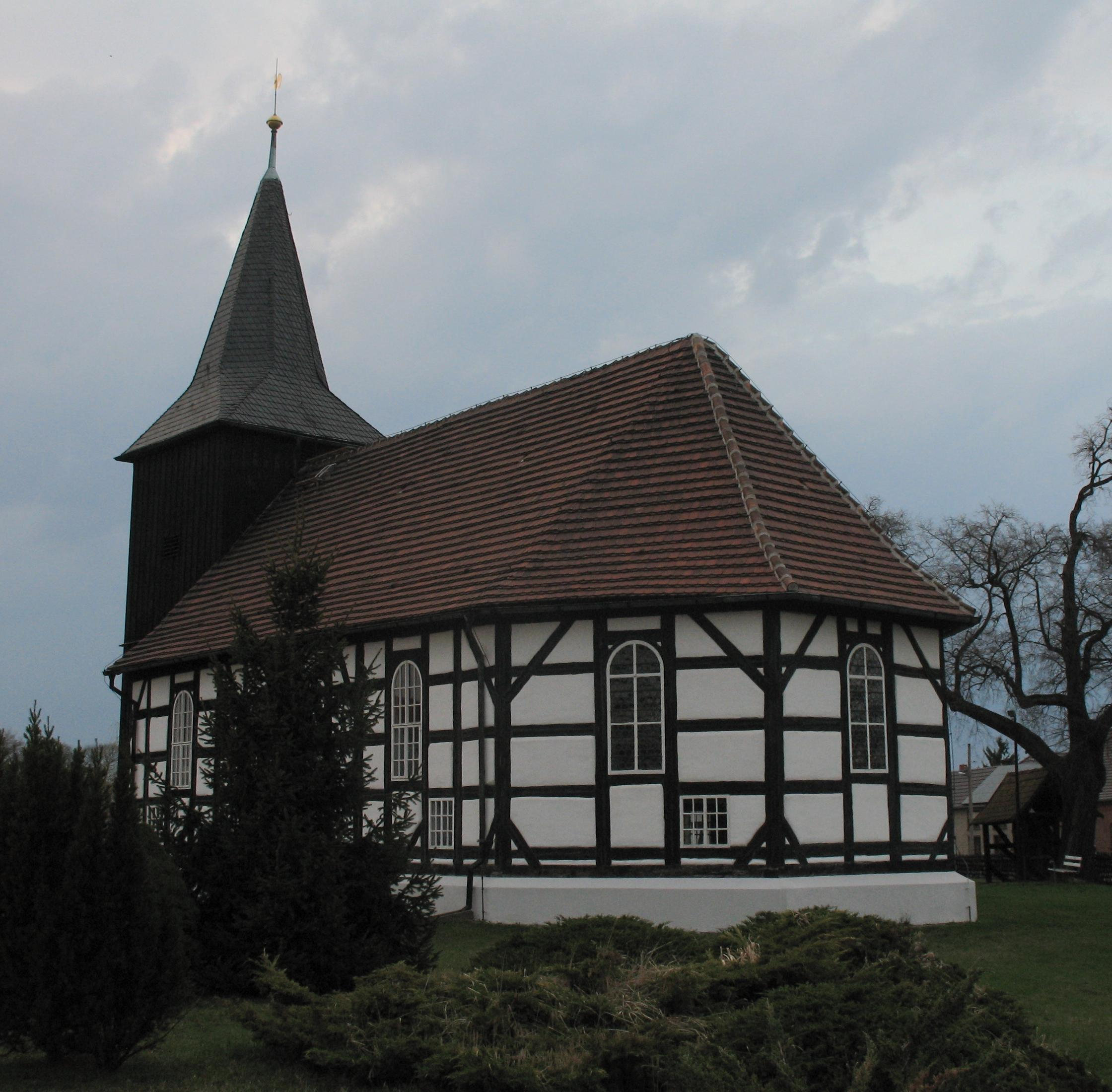 Church in Elsterheide-Bluno in Saxony, Germany Hornjoserbsce: Blunjanska cyrkej